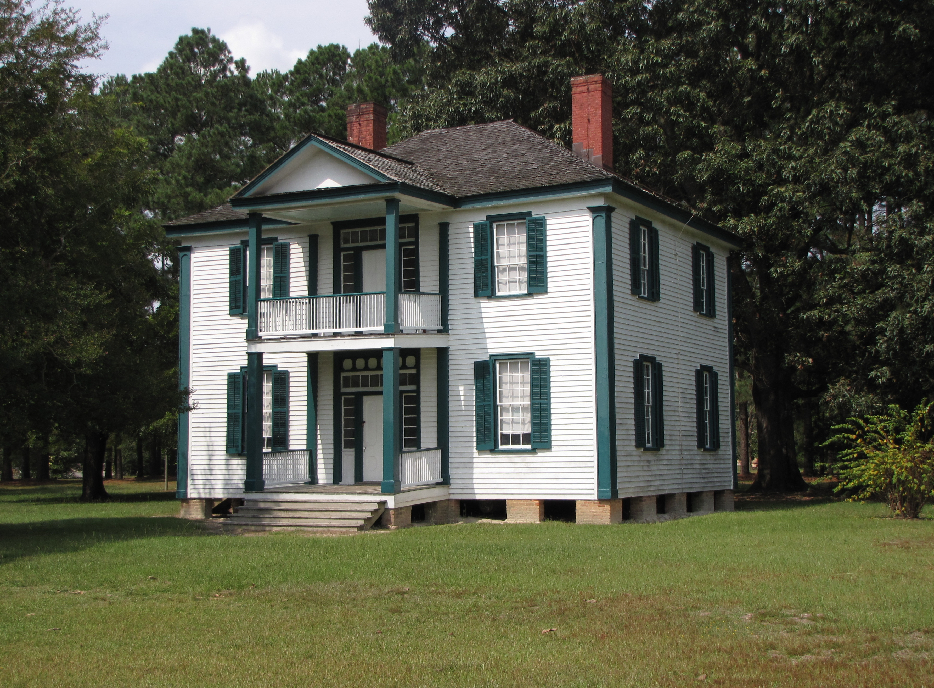 Harper House was used as a hospital during the Battle of Bentonville. The Battle of Bentonville took place March 19 - 21, 1865 near Bentonville, North Carolina in Johnston County. It was one of the last battles of the American Civil War. Today it is a North Carolina State Historic Site.